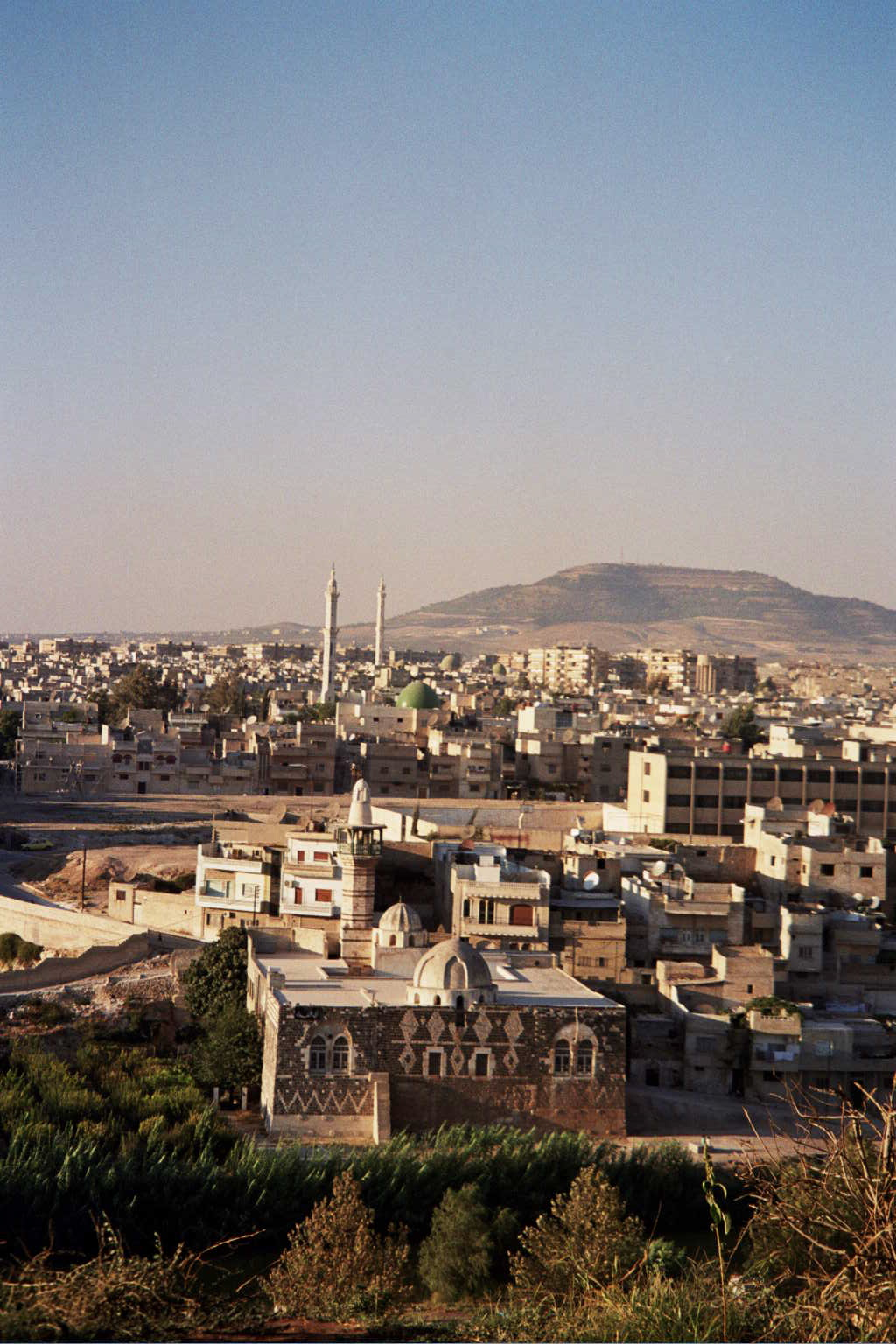 Another view of the city from the citadel. Photograph is looking north from the citadel towards Tareeq Halab, showing the Abu'l-Fida Mosque across the Orontes.